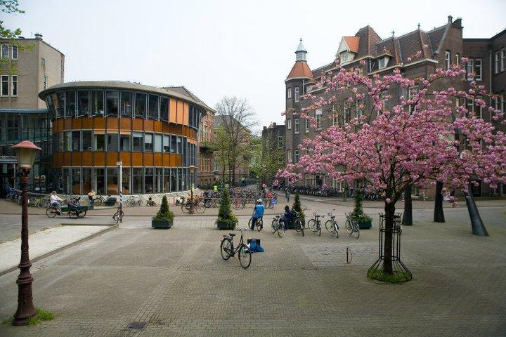 The Binnengasthuis area of the University of Amsterdam